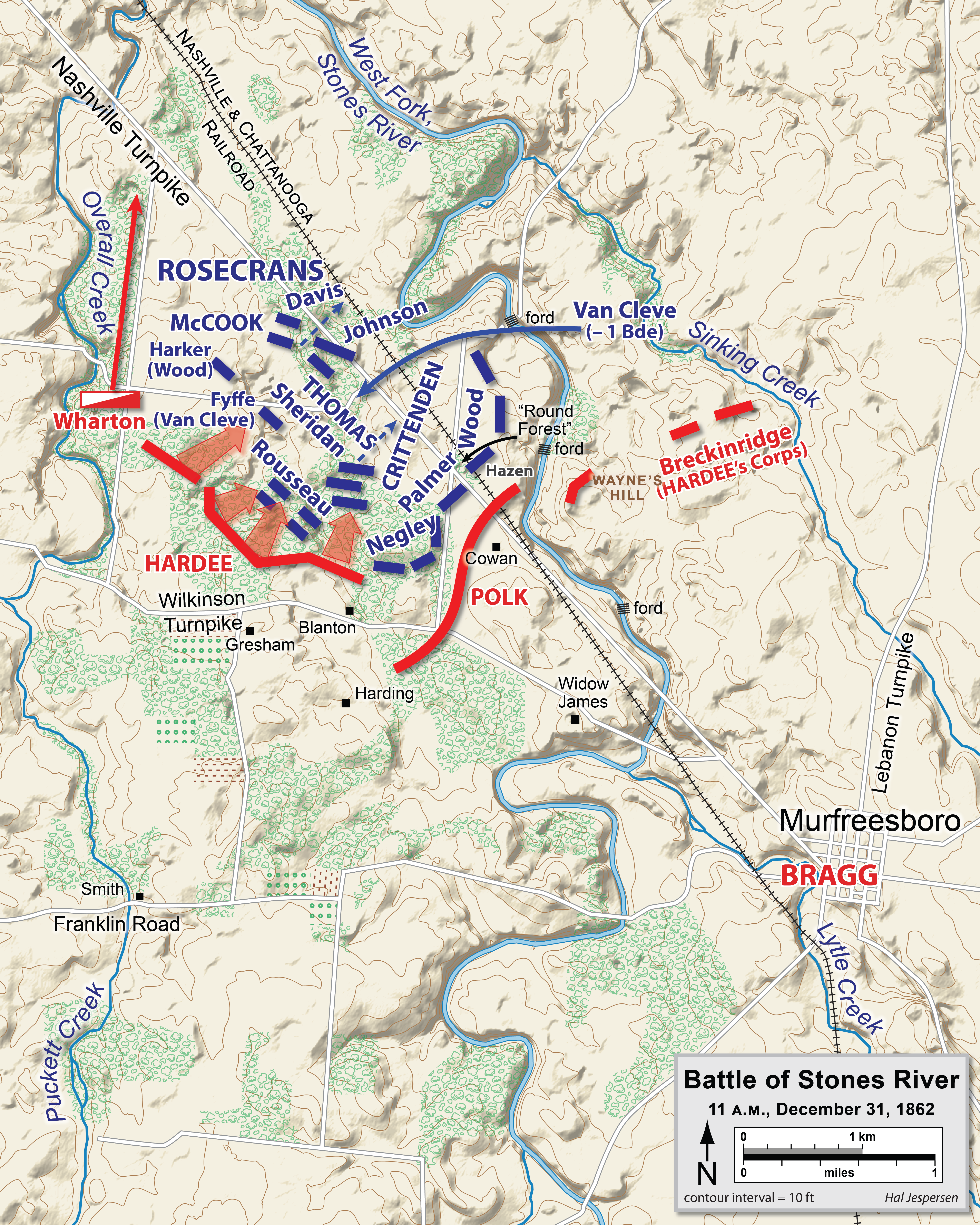 Map of the Battle of Stones River of the American Civil War. Drawn in Adobe Illustrator CS6 by Hal Jespersen. Graphic source file is available at